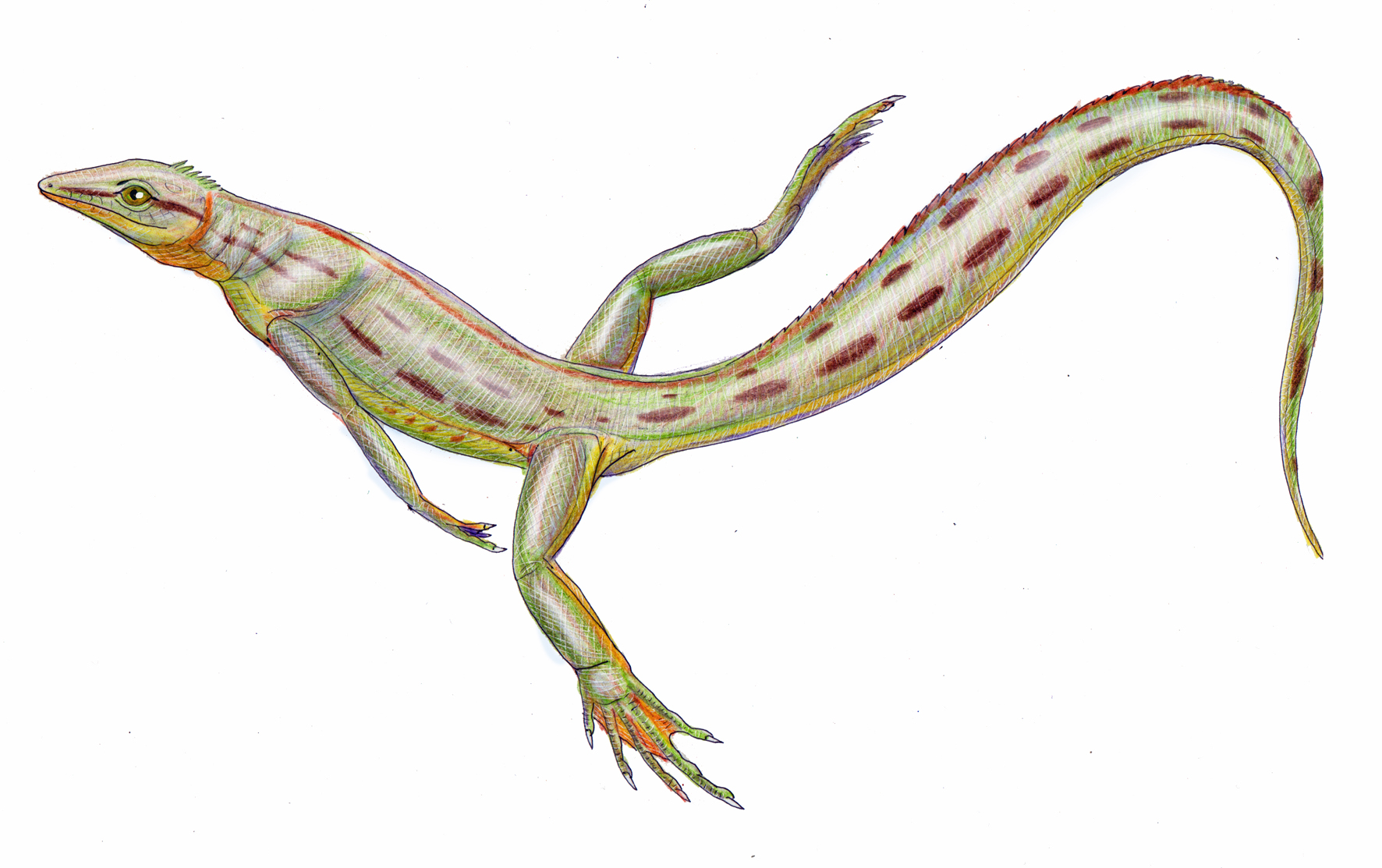 Spinoaequalis schultzei from Late Carboniferous of Kansas